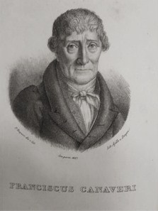 18th century Italian physician